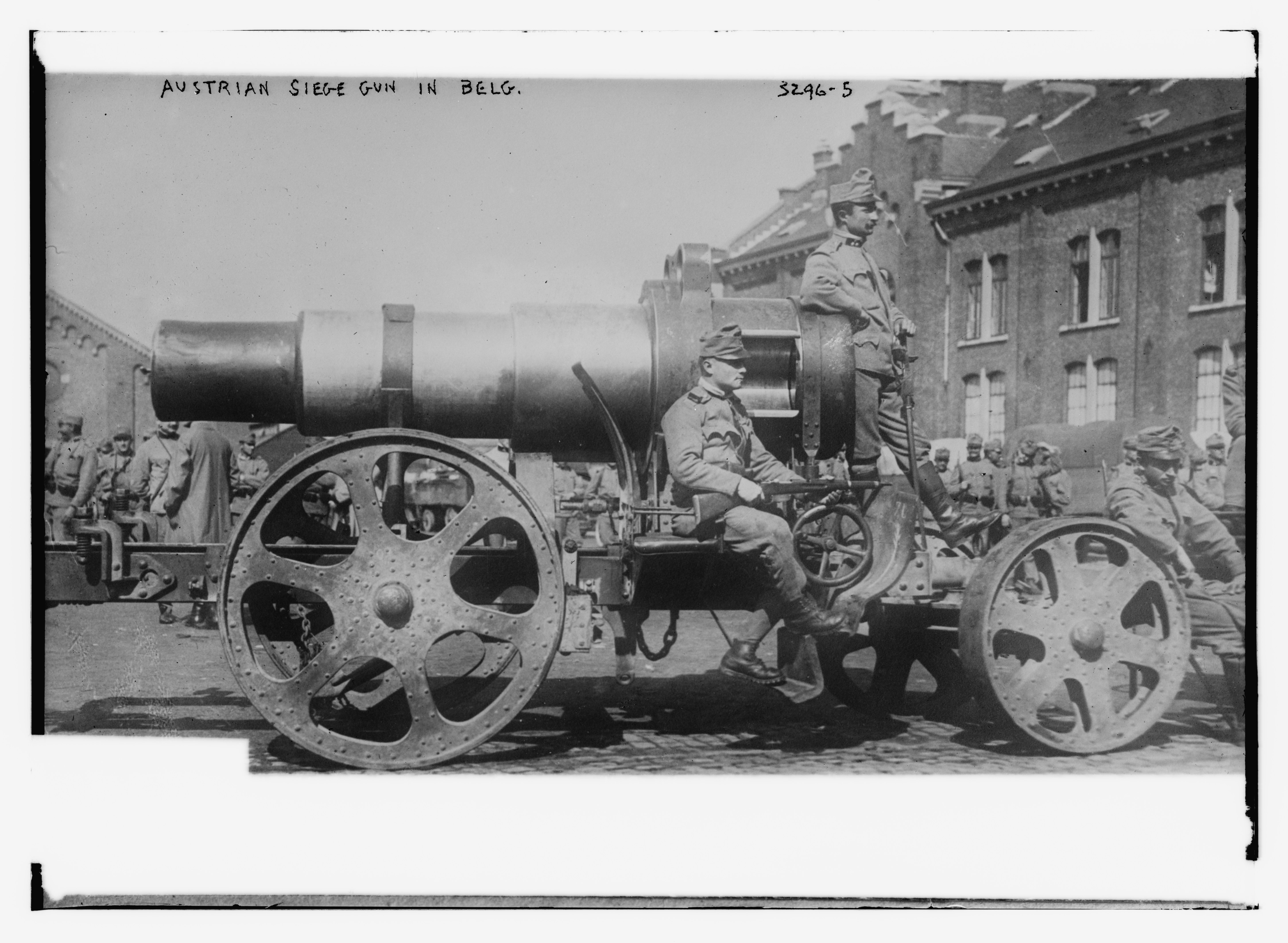 Title: Austrian siege gun in Belg. [i.e., Belgium] Abstract/medium: 1 negative : glass ; 5 x 7 in. or smaller.